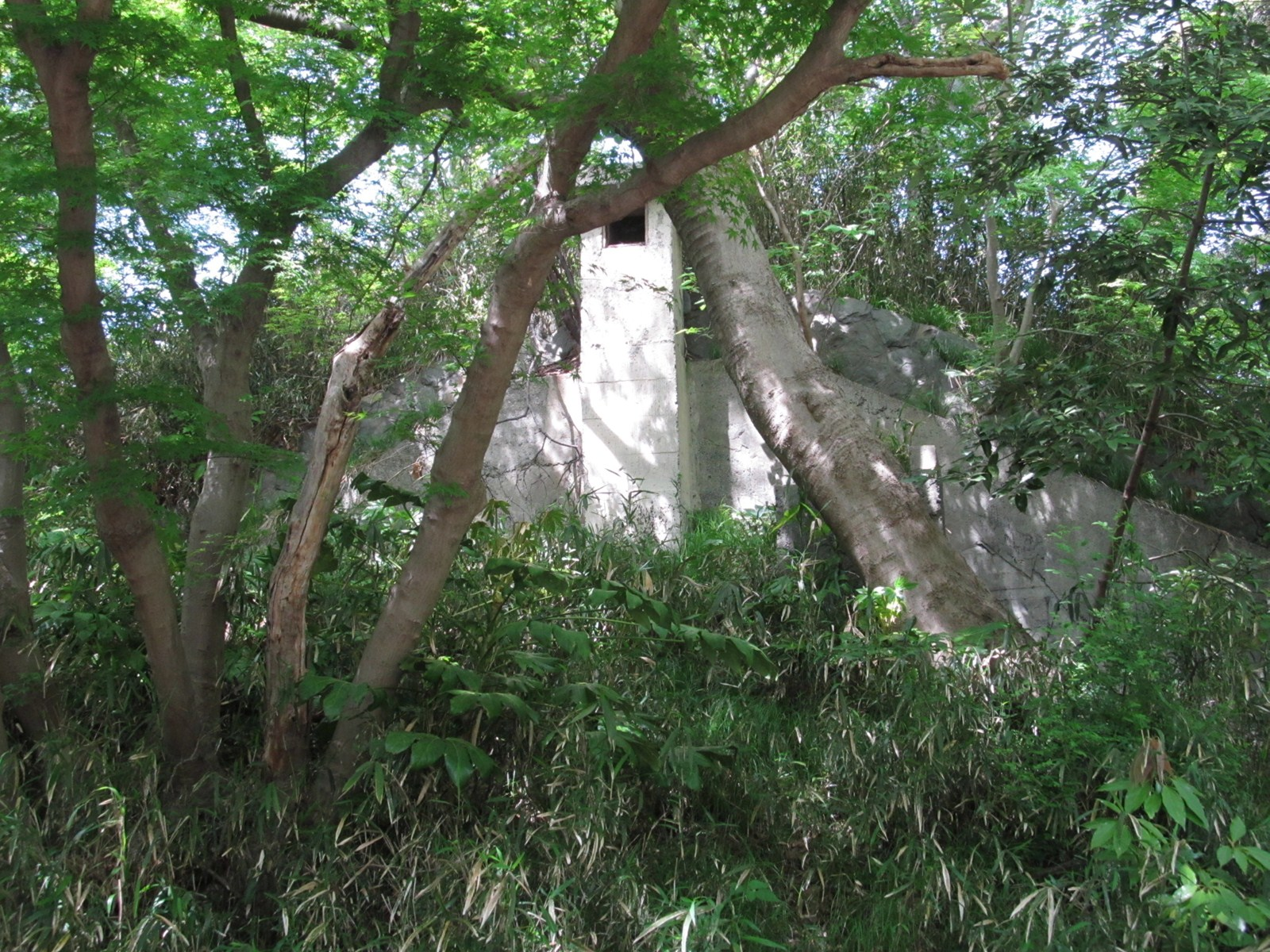 Bunker in Fujisawa City, Kanagawa Prefecture, Japan